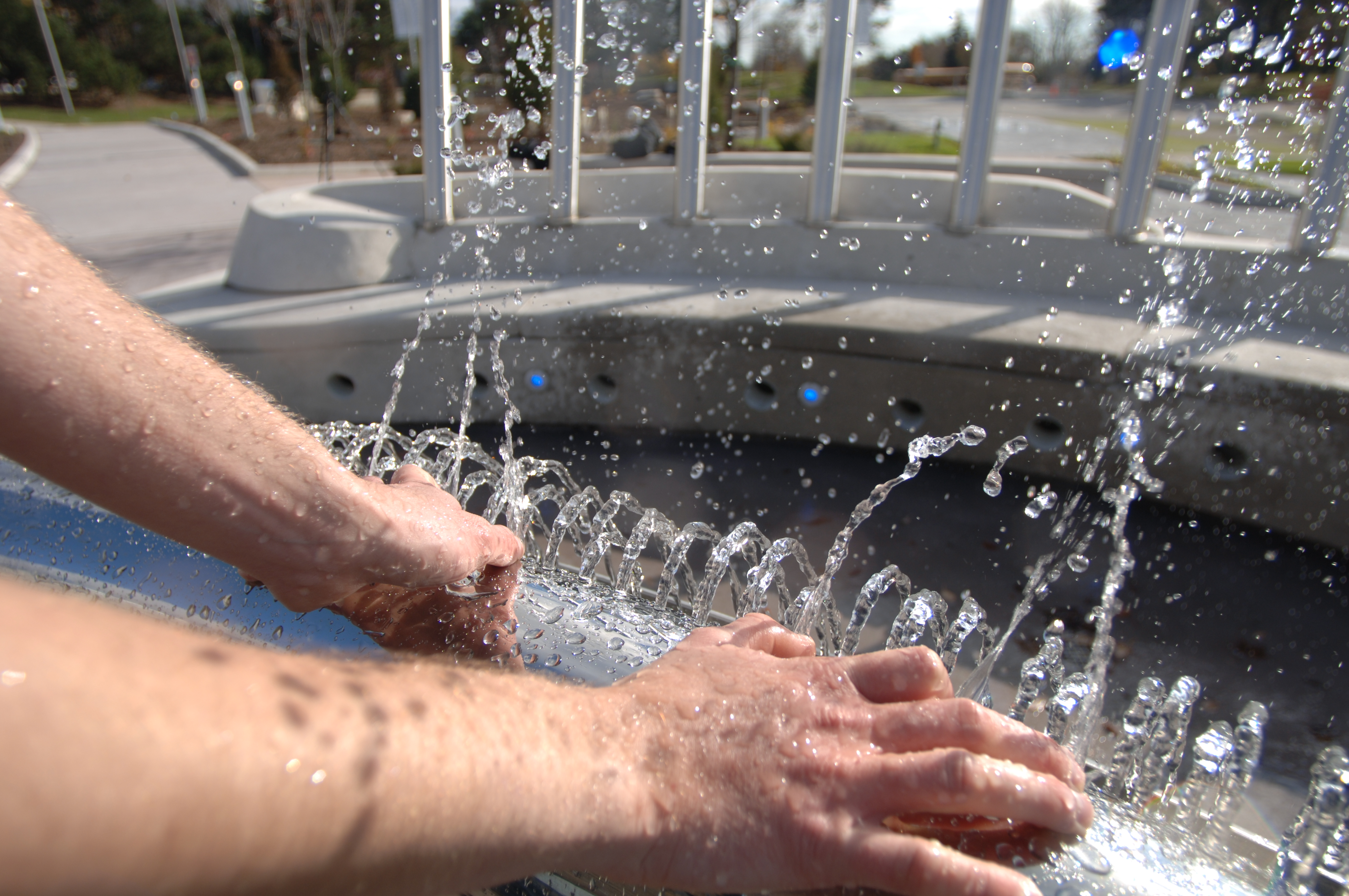 Picture of composer Ryan Janzen playing Suite for Hydraulophone on a 45-jet hydraulophone.